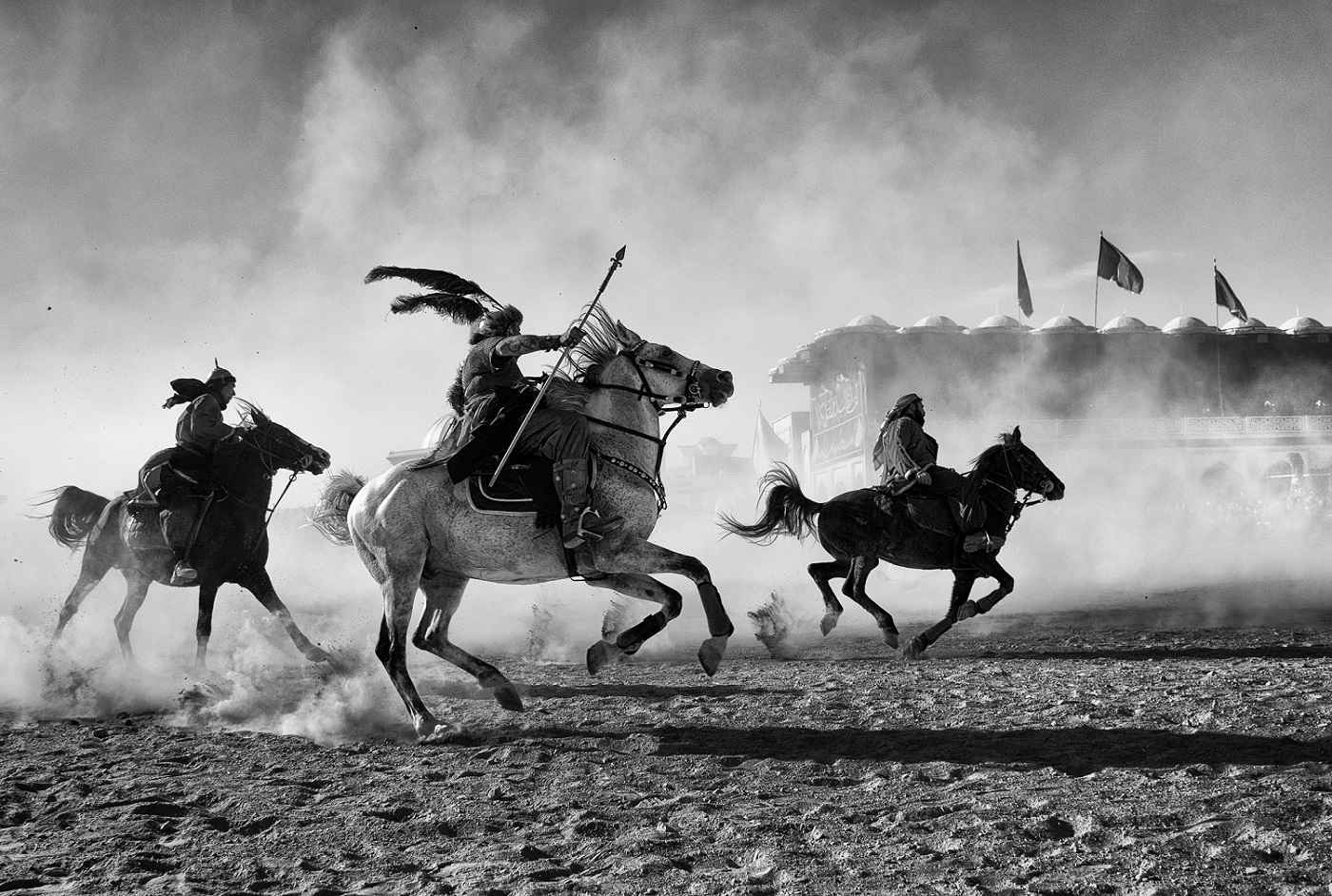 Muharam Ceremony